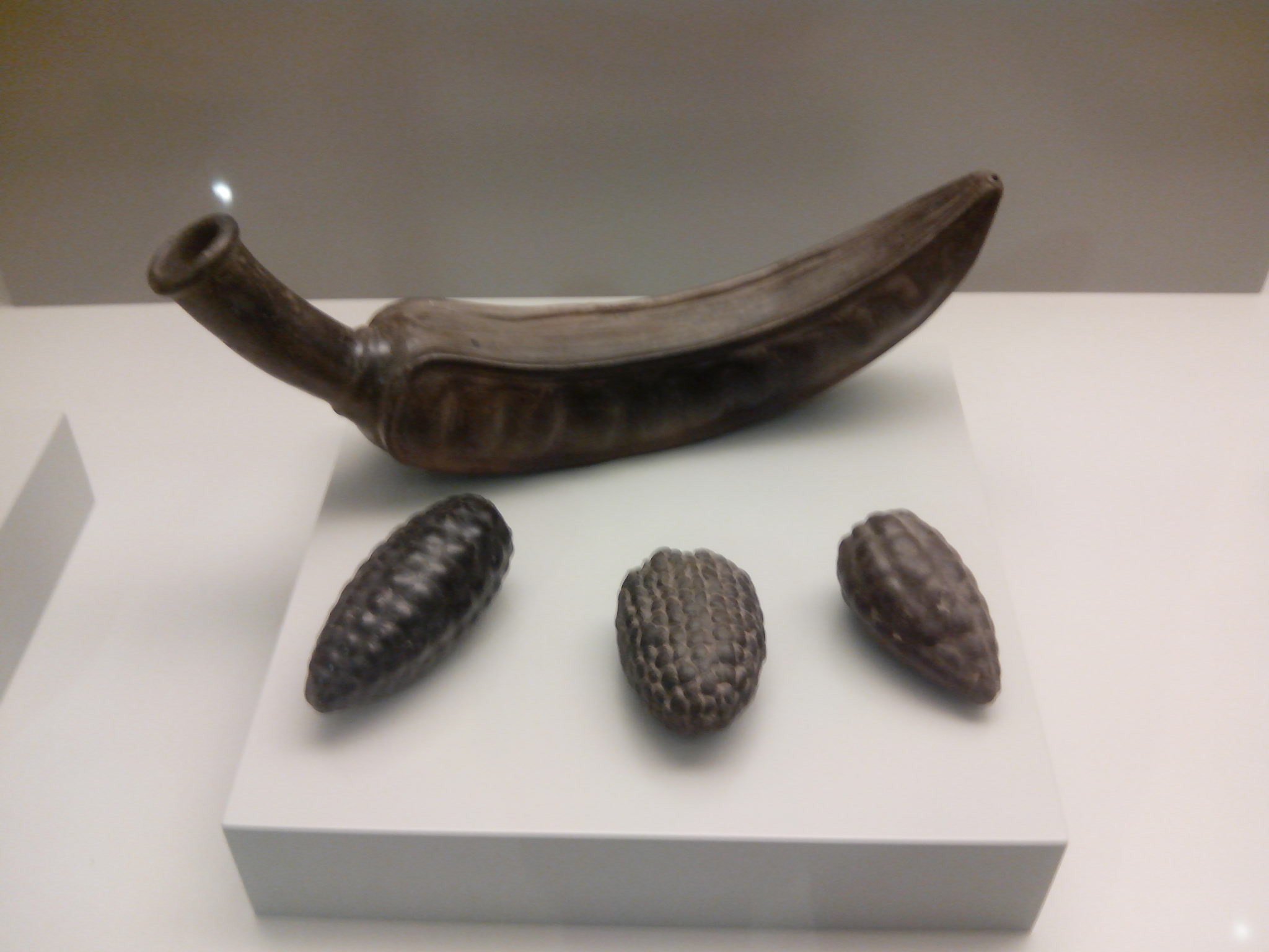 Ceramic vessel. Moche Culture artwork.